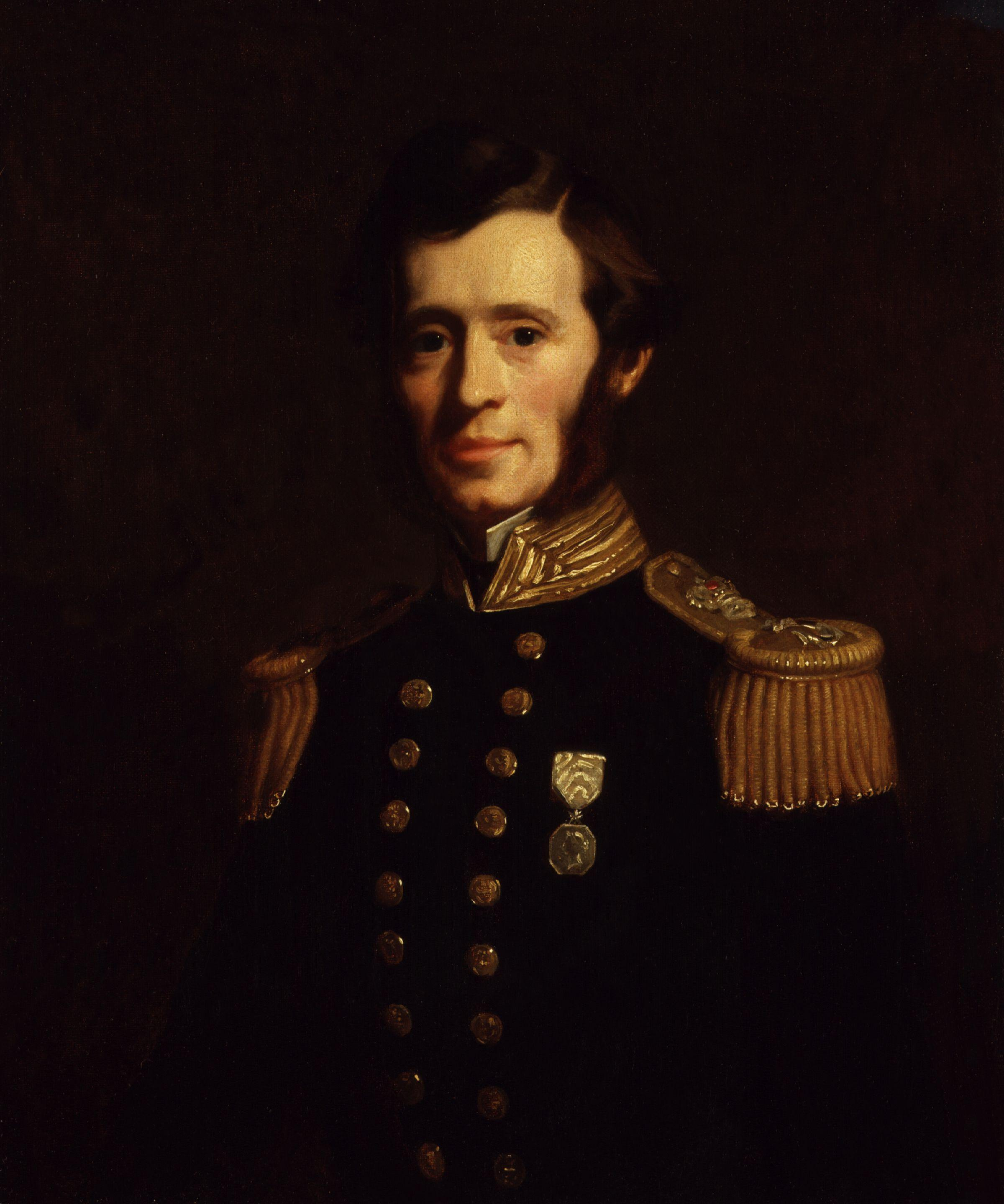 Sir (Francis) Leopold McClintock, by Stephen Pearce (died 1904). All images in this batch have been confirmed as author died before 1939 according to the official death date listed by the NPG.